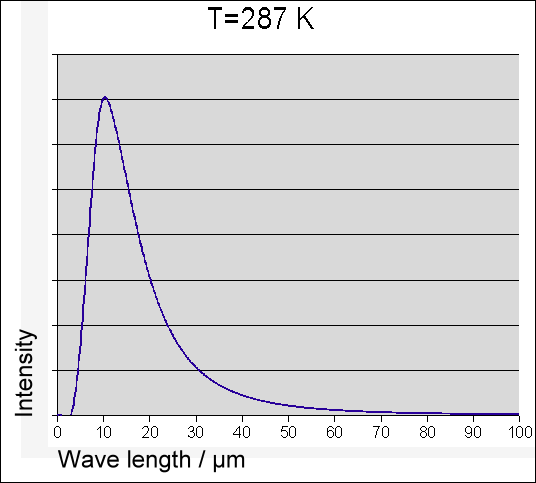 Black body radiation for T=287K, which is the temperature of the earth.